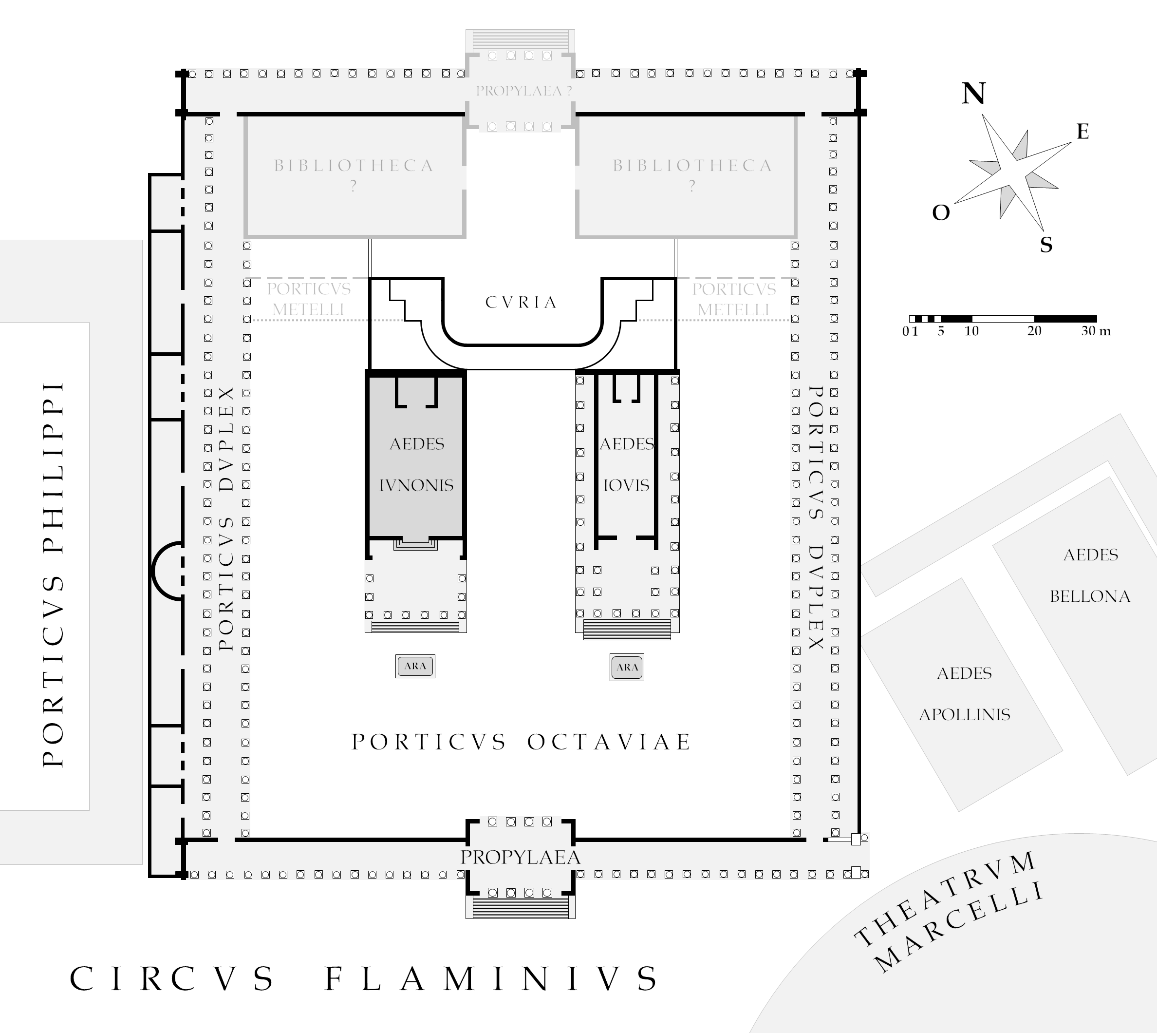 Map of the Porticus Octaviae D'après : - Rodolfo Lanciani, Forma Urbis Romae, Roma, 1893-1901 - G. Carettoni, A. M. Colini, L. Cozza et G. Gatti, La pianta marmorea di Roma antica, Rome, 1960 - Filippo Coarelli, Rome and environs : an archaeological guide, 2007